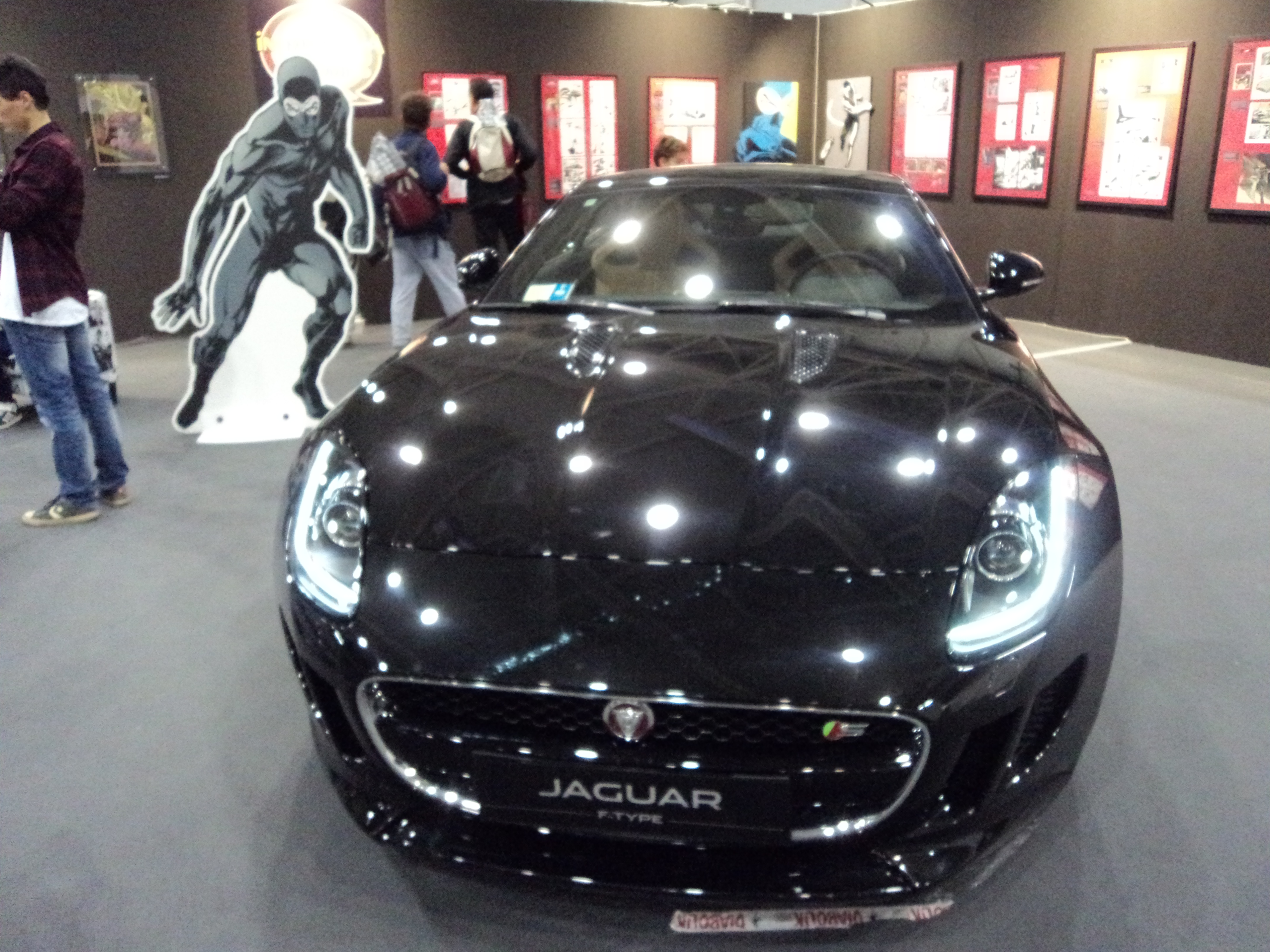 Romics 2015 - Autumn Edition